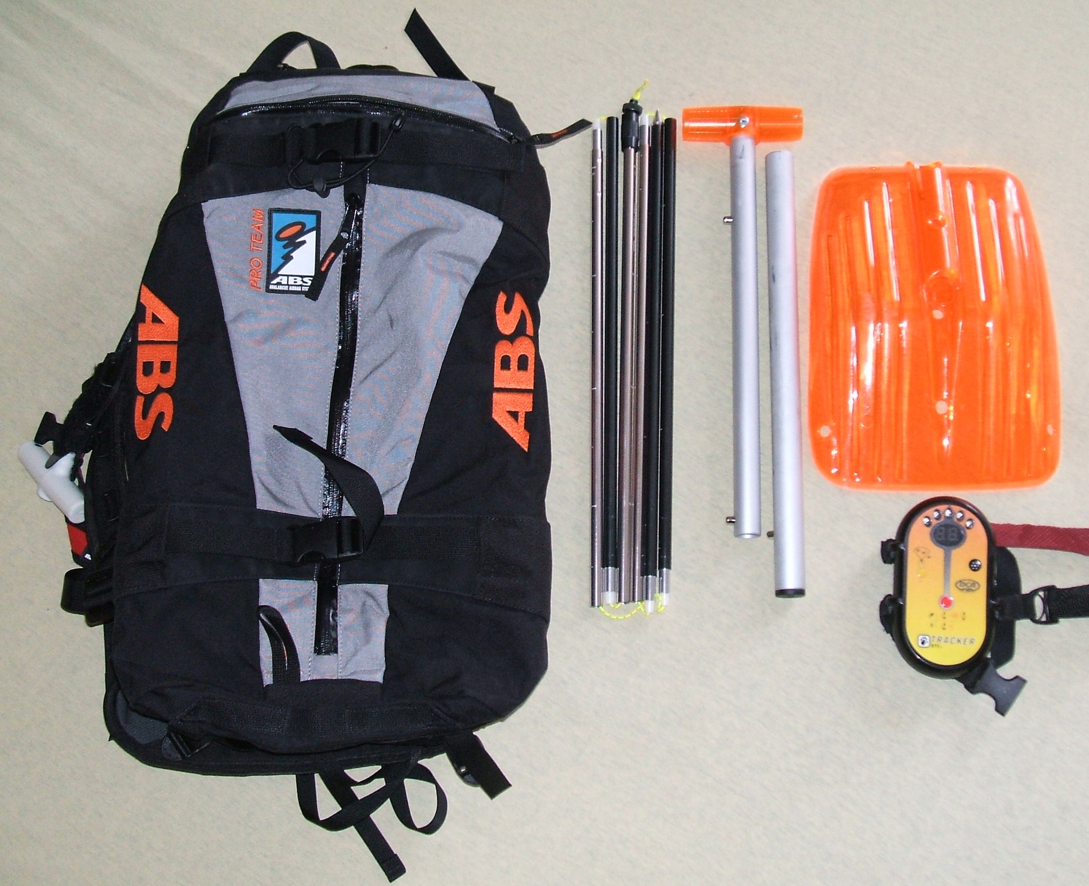 avalanche security, search and rescue equipment (left to right): avalanche airbag system, collapsed probe, shovel (a plastic one like this is not advisable), avalanche transceiver